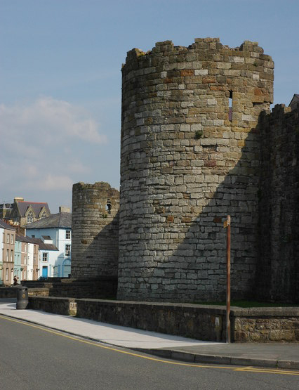 Town walls, Caernarfon Caernarfon still retains a substantial town wall built in the 1280s for Edward I.